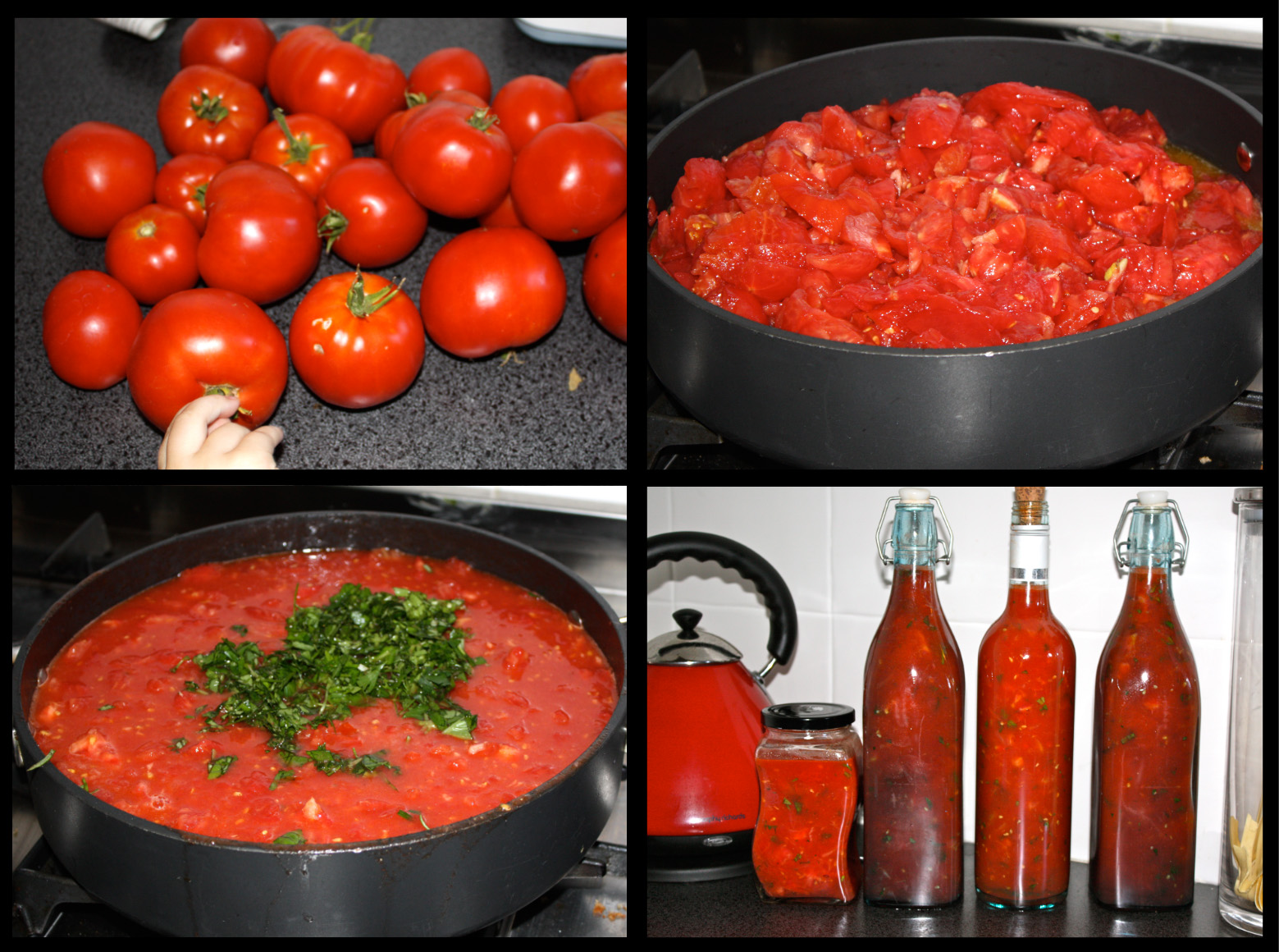 This morning I picked all our ripe tomatoes and turned them into sauce. It's Dad's birthday tomorrow, so I think one these will make a good present for him. Might do a custom label ...